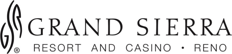 Old logo of the Grand Sierra Resort. See File:Grand Sierra Resort Logo.png for current logo.